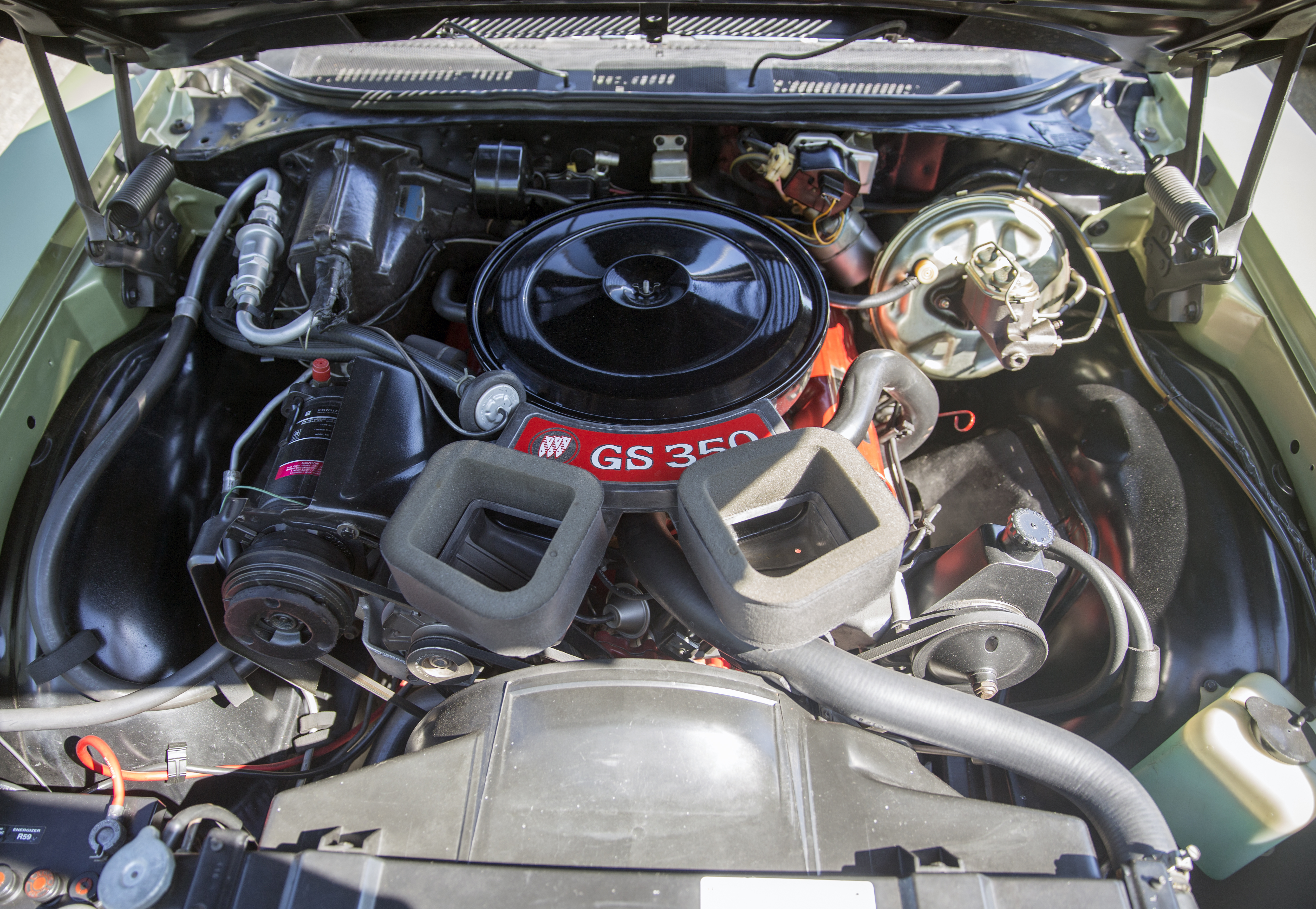 The 350ci, Ram Air-equipped small-block V8 in a 1969 Buick Skylark GS 350.